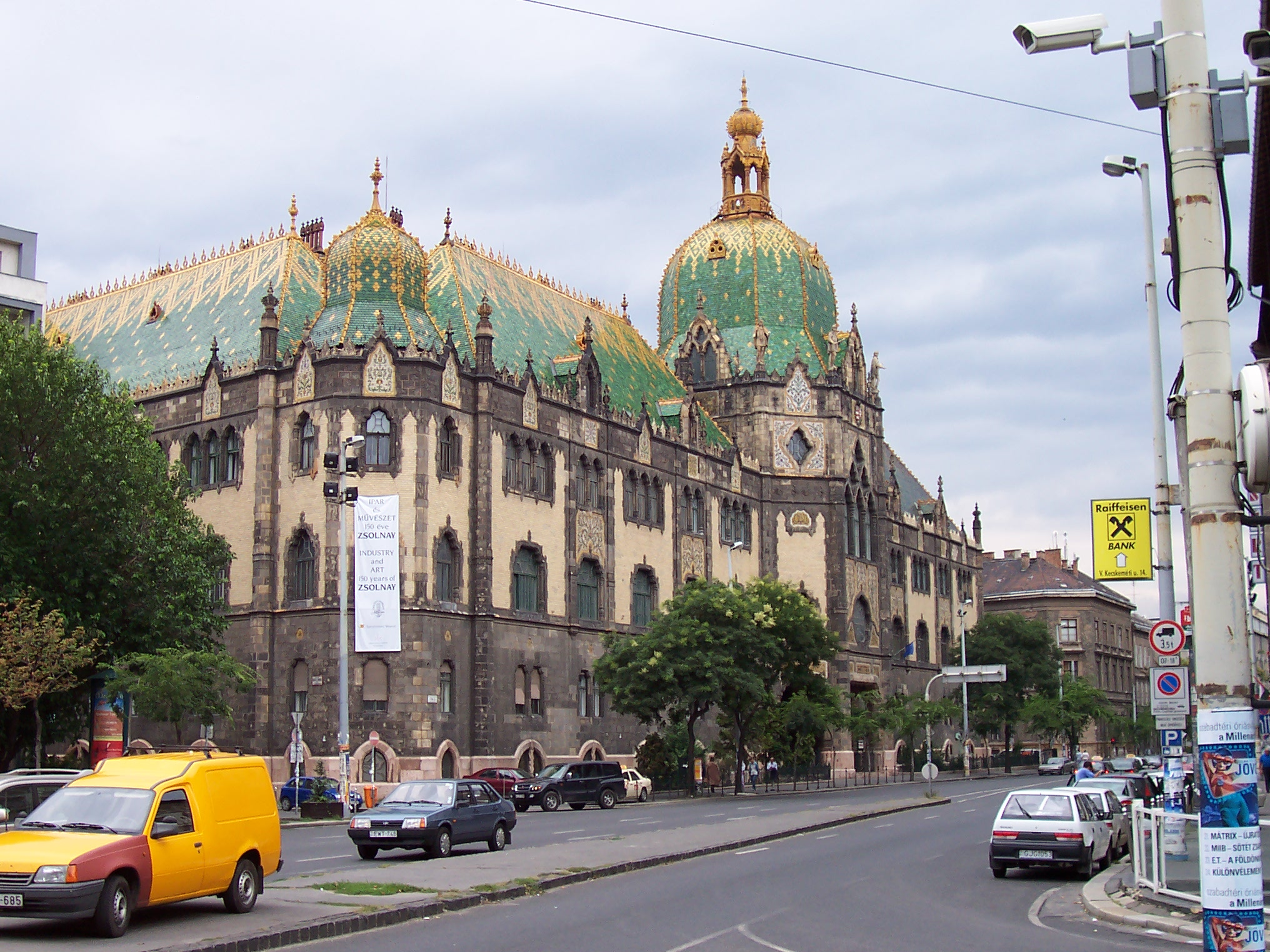 Museum of Applied Art Source photographed by myself Photographer Pier Luigi Mora Date 22 August 2004 Camera Data Camera Kodak CX6330 zoom digital camera